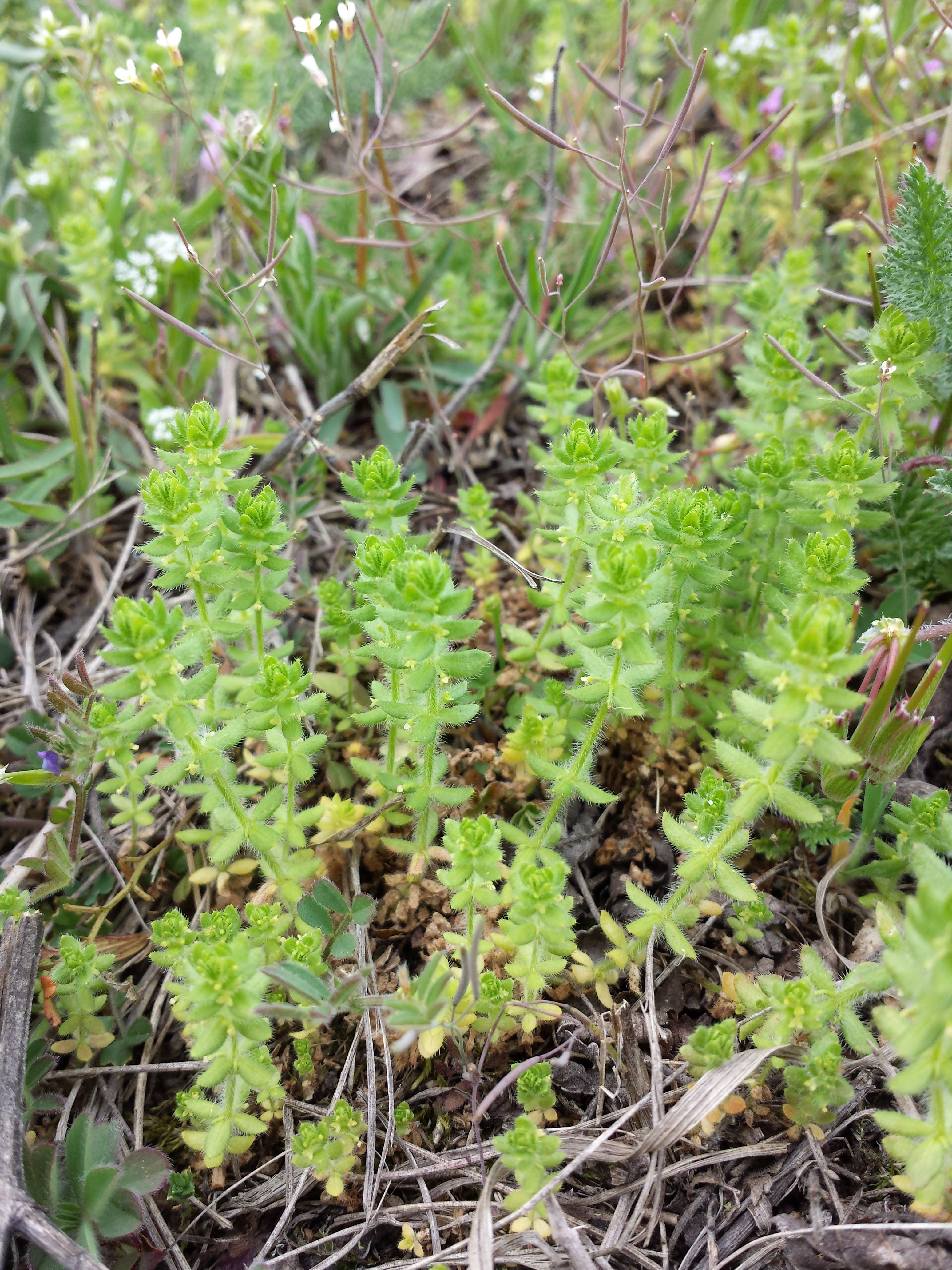 Habitus Taxon: Cruciata pedemontana (sensu Fischer et al. EfÖLS 2008 ISBN 978-3-85474-187-9; det. M. A. Fischer 2014-04-05) Location: Hackelsberg, Jois, district Neusiedl am See, Burgenland, Austria - ca. 160 m a.s.l. Habitat: dry grassland This media shows the nature reserve in the Burgenland with the ID 1060.